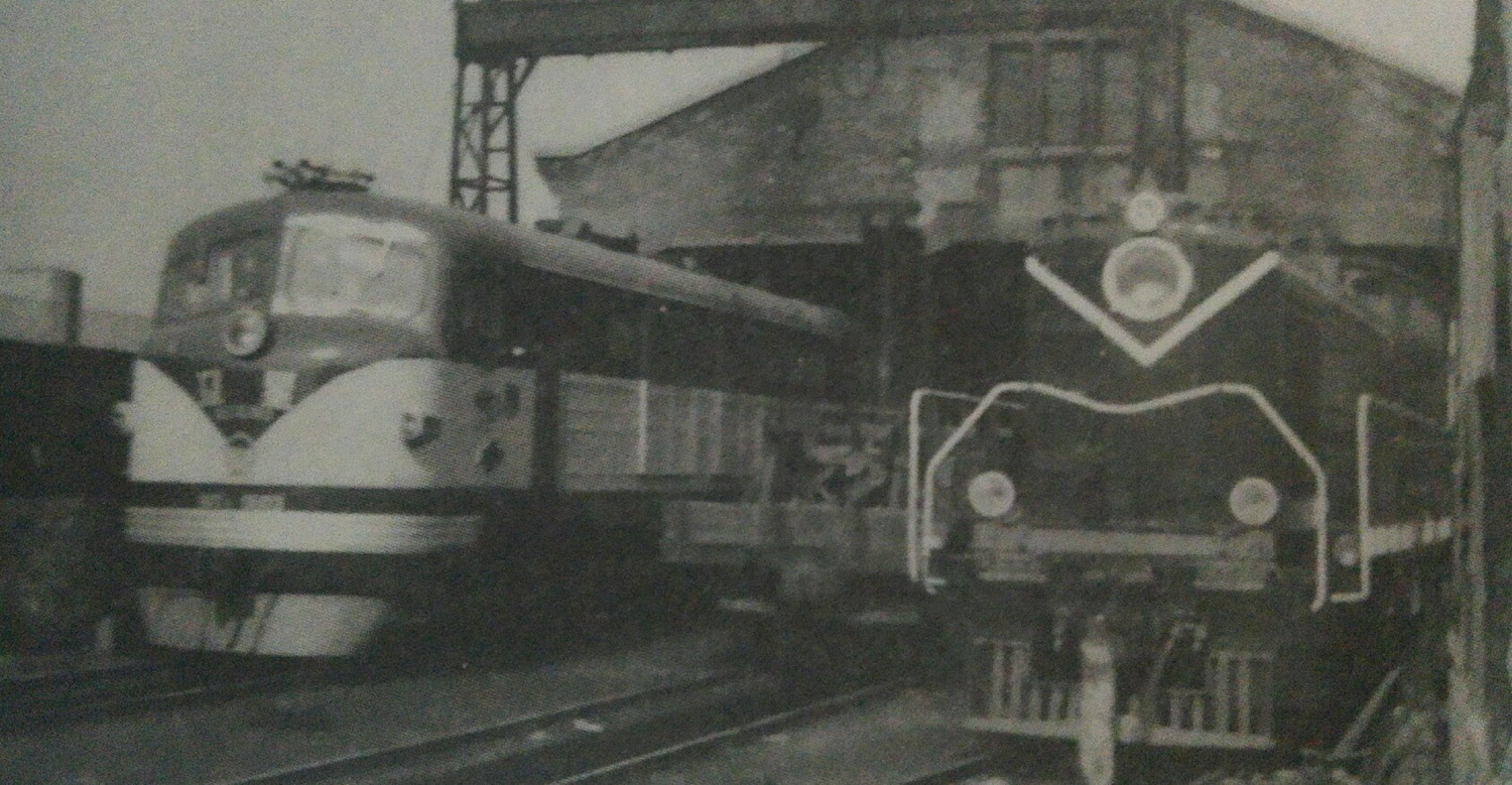 A China Railways NY1 diesel locomotive and a NDQ (Soviet TE1G) Coal-Burning gas locomotive in Beijing Locomotive Depot, 1960.